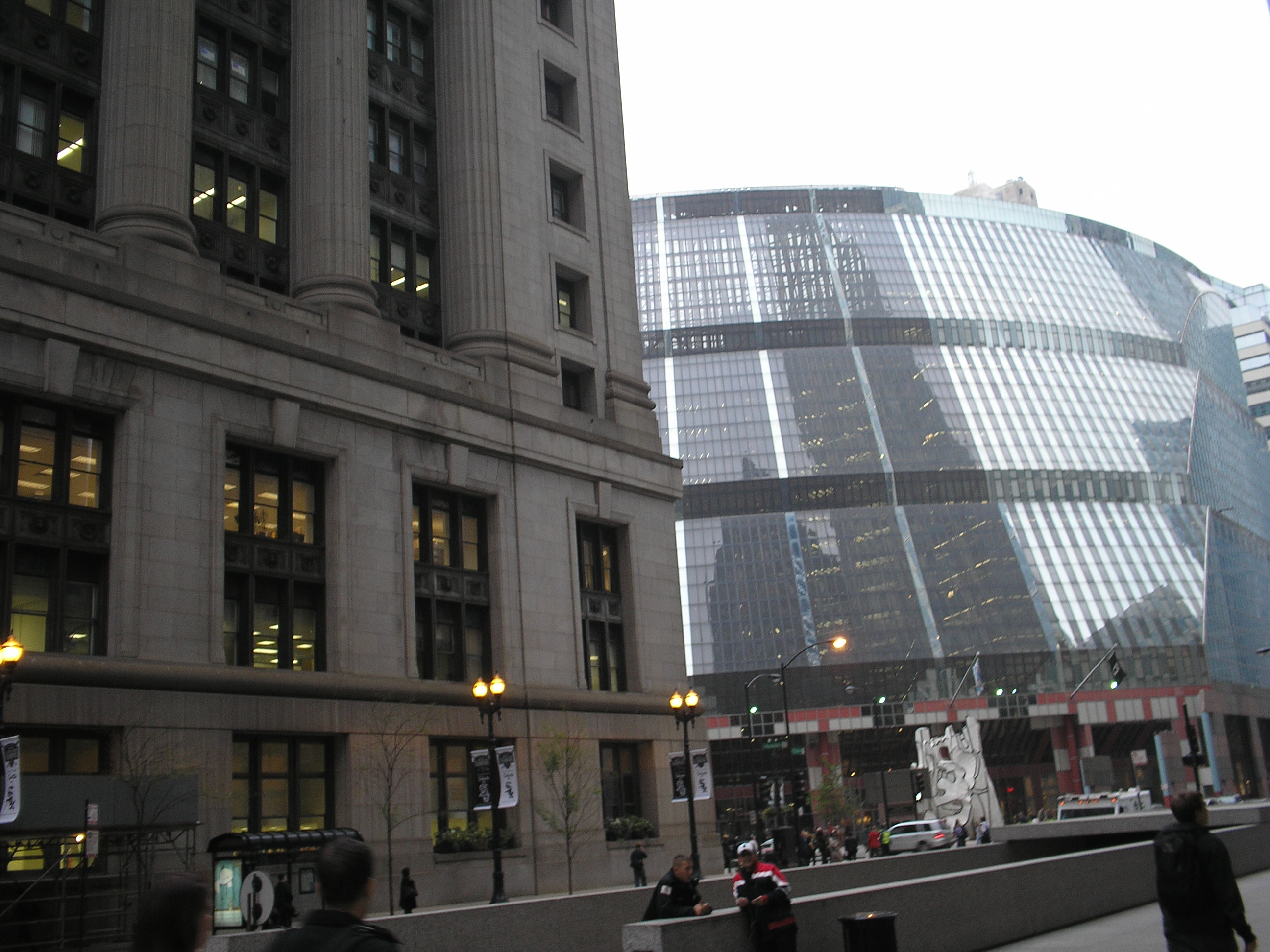 taken by Ted Ernst on 10/12/2005, also uploaded to